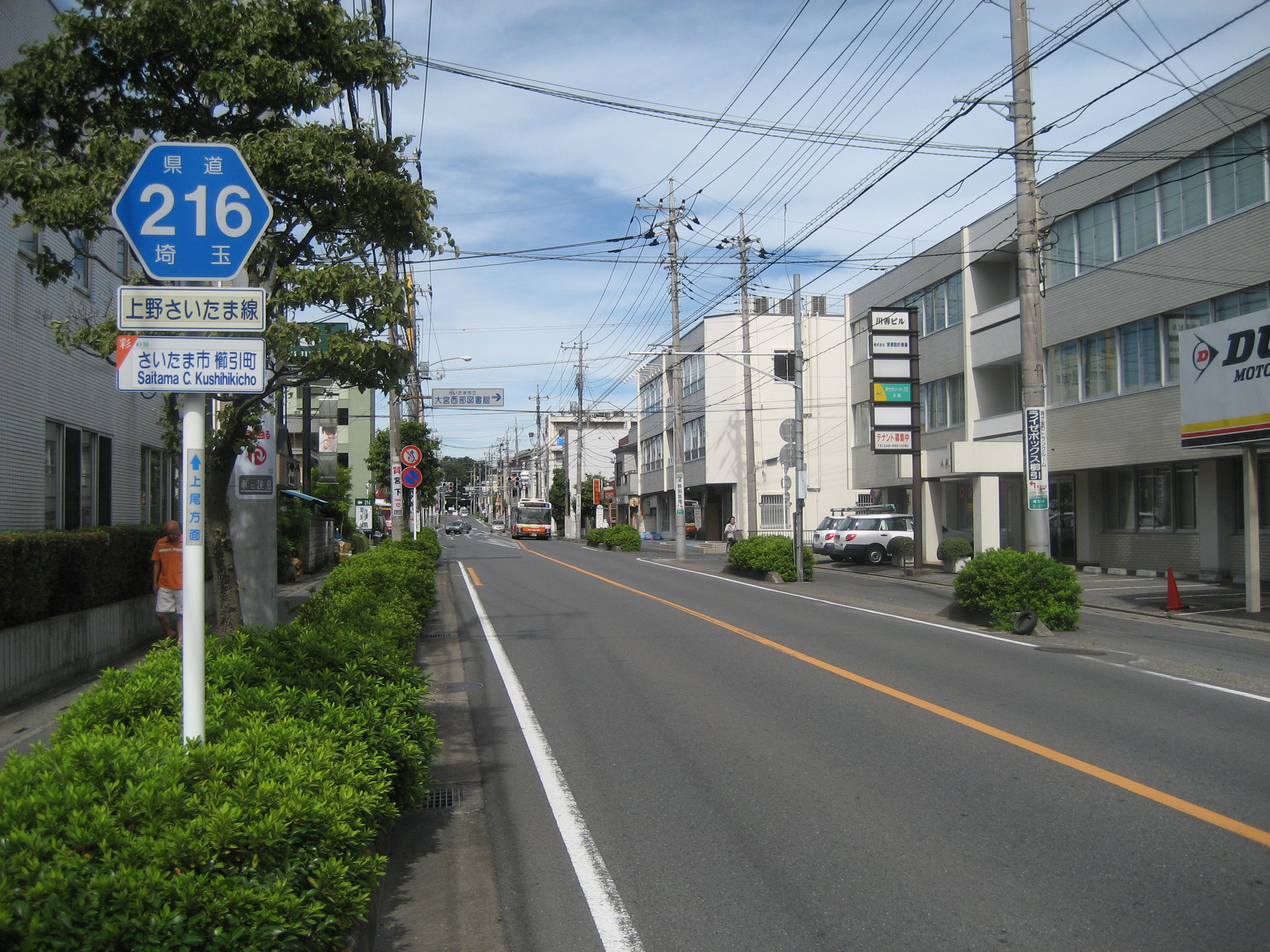 The Saitama Prefectural Road Route 216 in Kushihikicho, Kita-ku, Saitama City